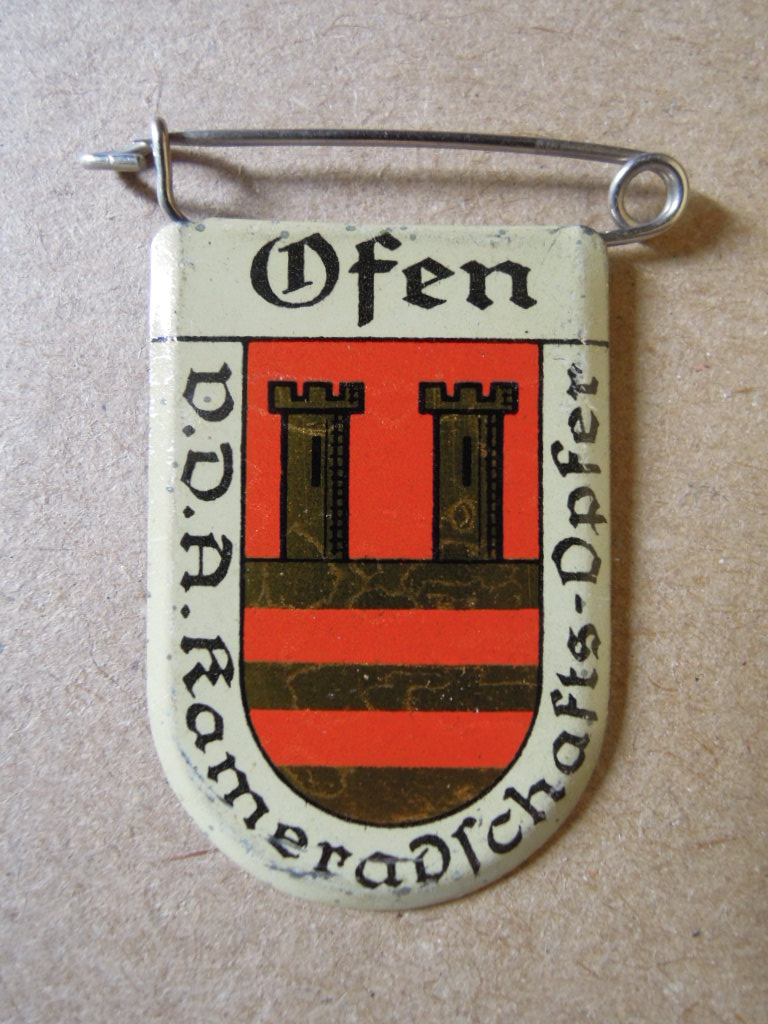 A German VDA donation badge for the town of Ofen (Buda Castle)